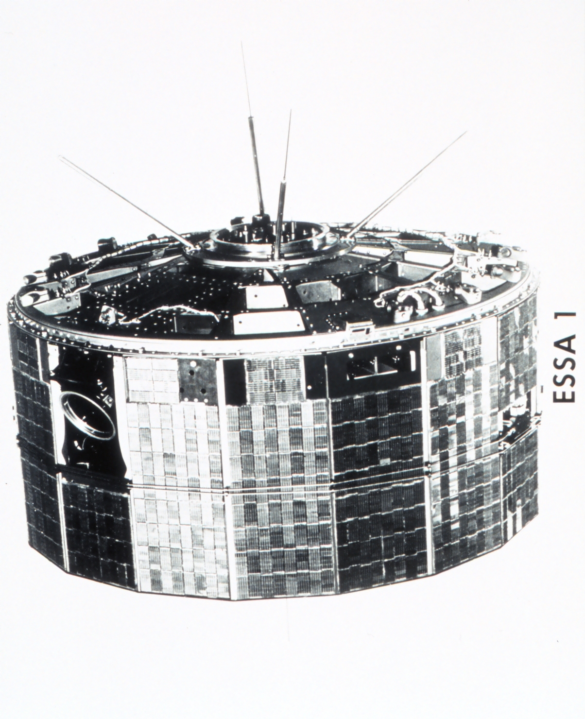 ESSA I, a TIROS cartwheel satellite launched on February 3, 1966.